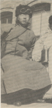 Kim Gyusik, 1914, Janggagu in Mongolia